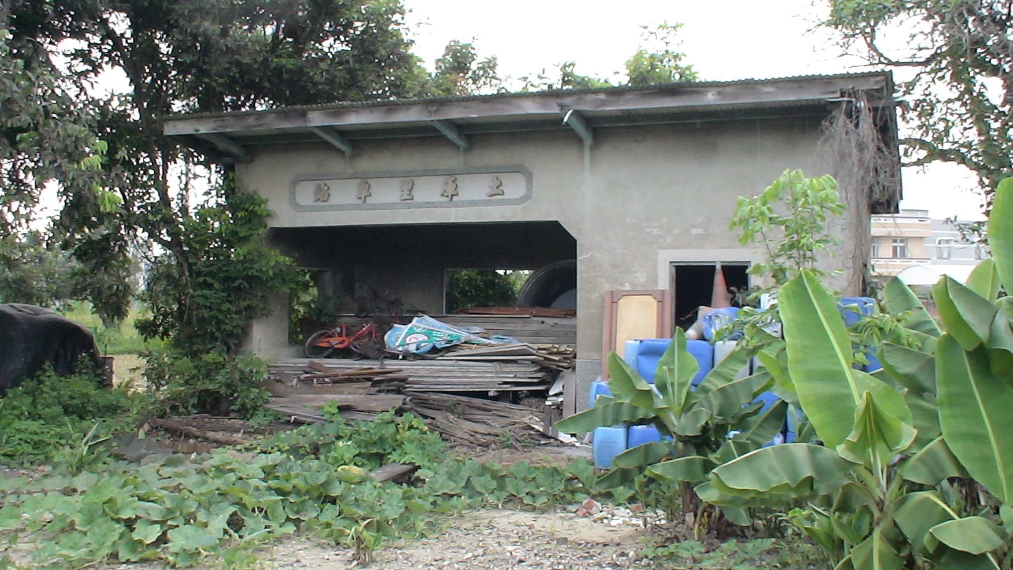 Tukuli Station, Taiwan Sugar Railways.